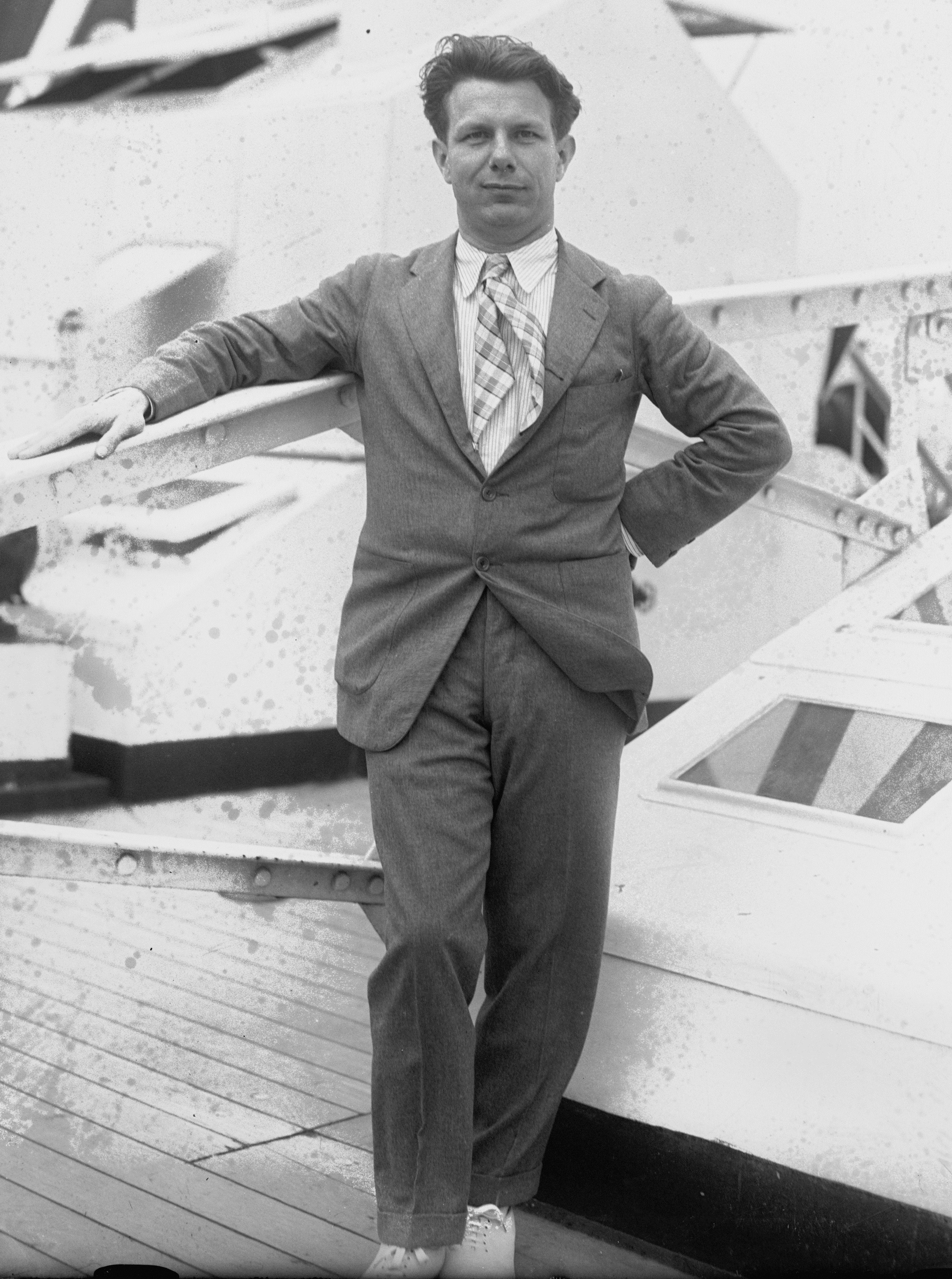 Norman Bell Geddes